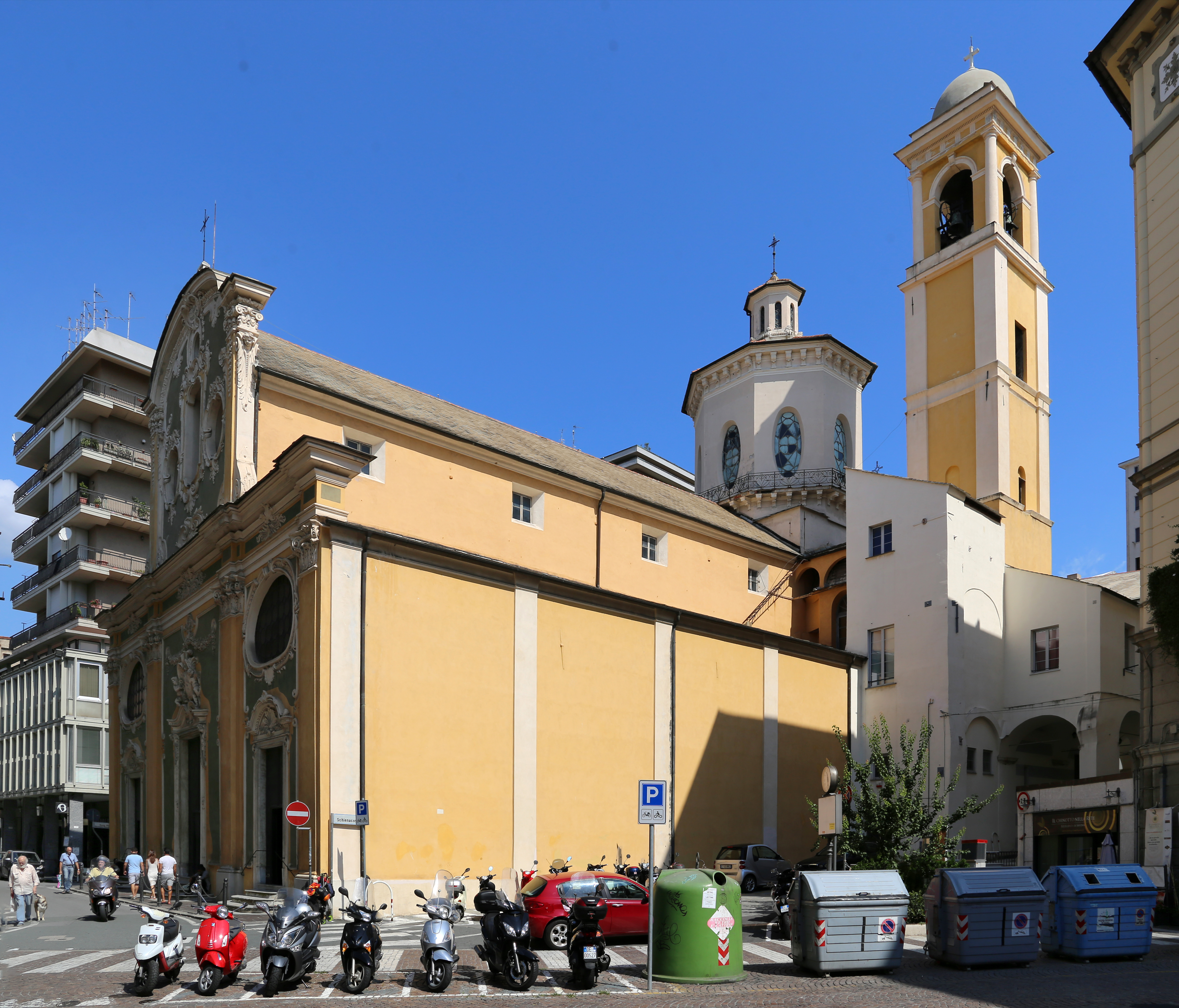 San Giovanni Battista in San Domenico (Savona)